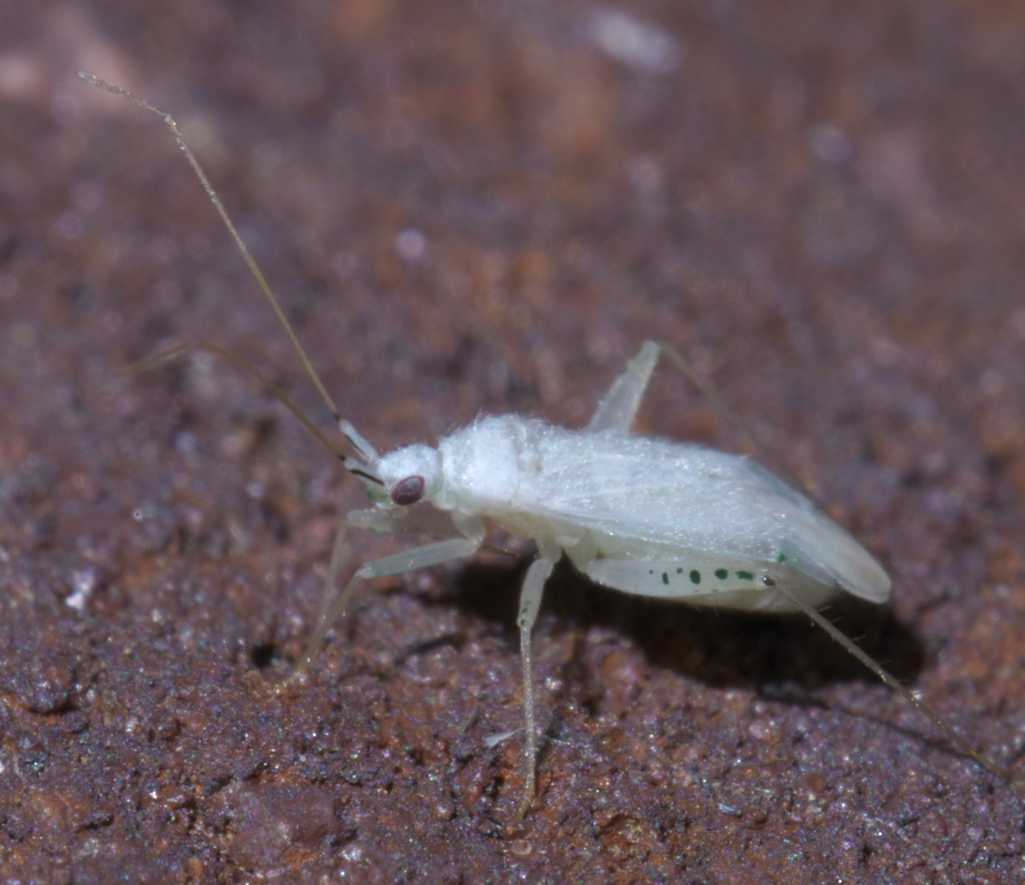 Reuteria bifurcata, Family: Plant Bugs, Size: 4 mm, ID Confidence: 98